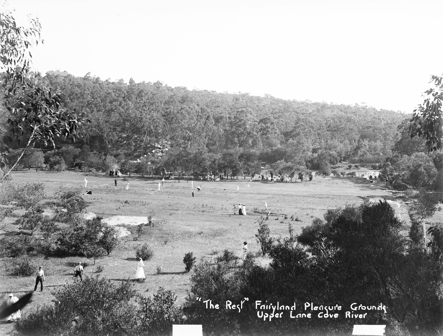 Title: "The Rest" at Fairyland Pleasure Grounds, Lane Cove National Park (NSW) Dated: c. 31/12/1908 Digital ID: 18526_a024_000068 Rights: No known copyright restrictions We'd love to hear from you if you use our photos/documents. Many other photos in our collection are available to view and browse on our website using Photo Investigator.